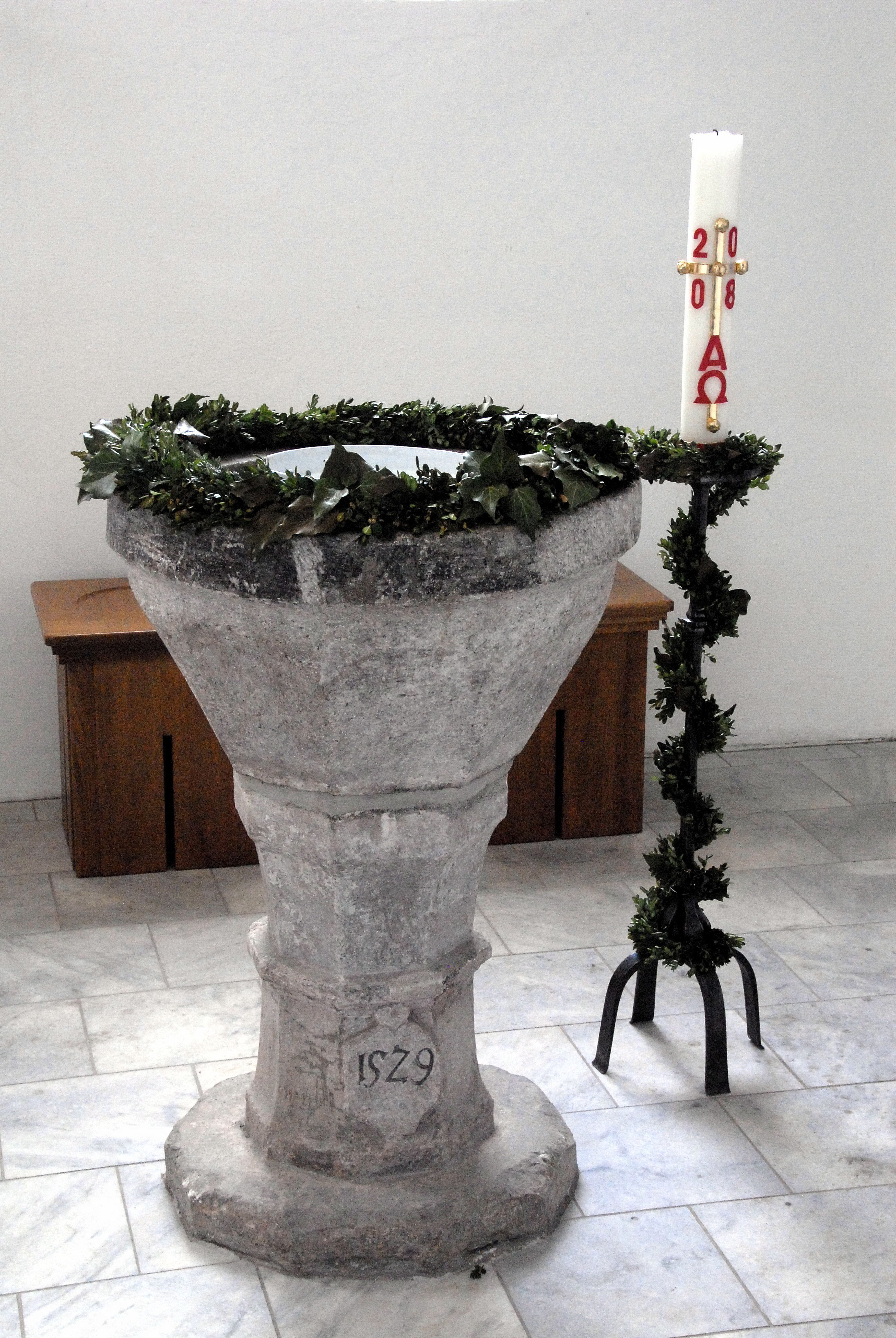 Baptismal font of the year 1529 in the parish church Saint Martin im Granitztal in the community Saint Paul im Lavanttal, district Wolfsberg, Carinthia, Austria